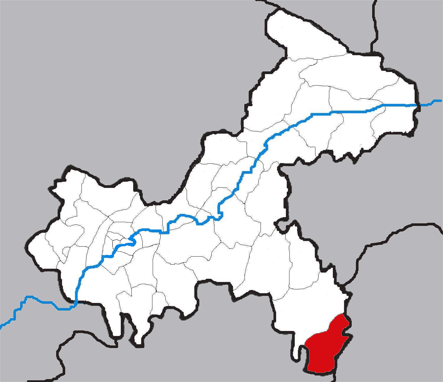 Administration maps of Chongqing, China